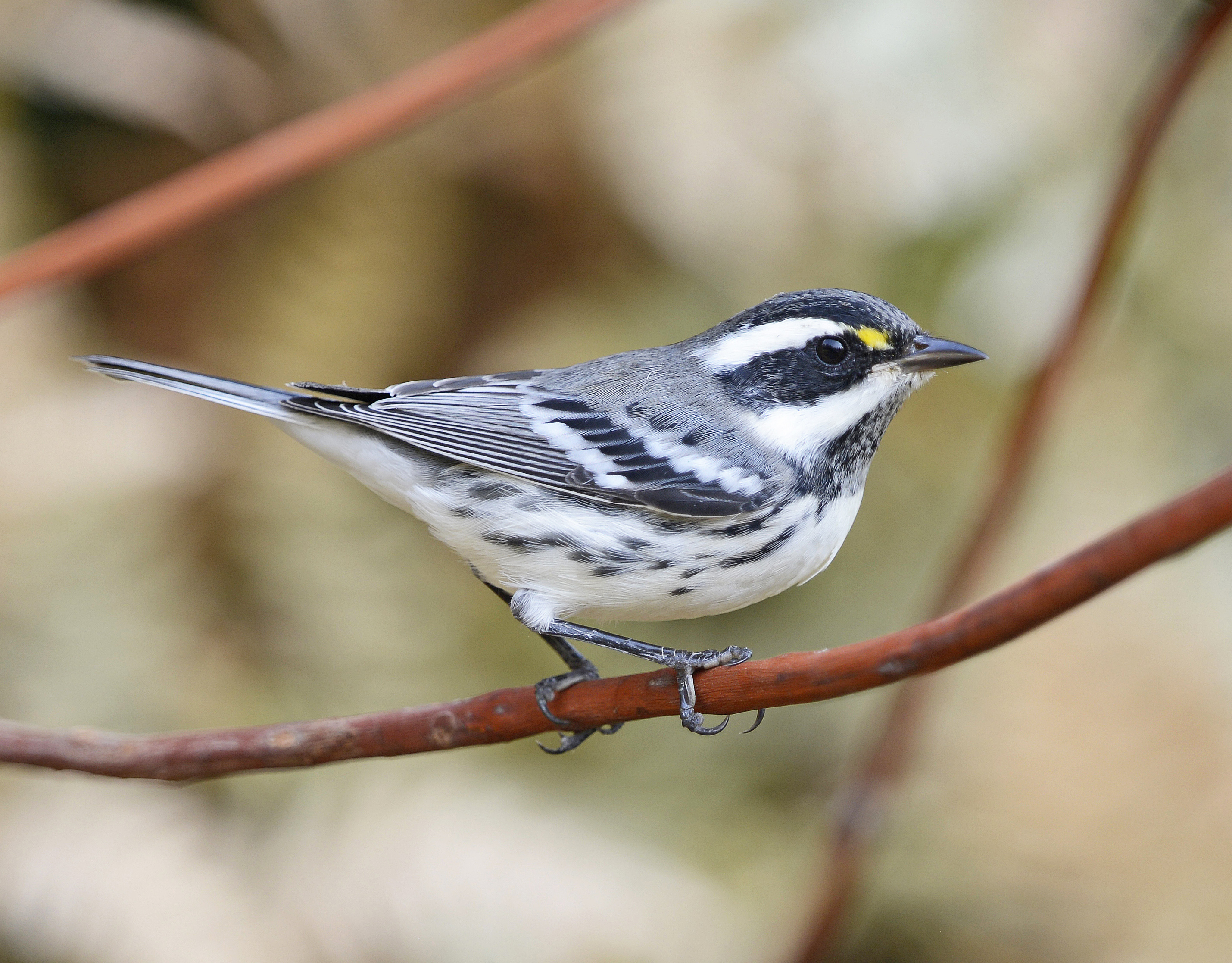 Black-throated Gray Warbler (Setophaga nigrescens), male, western Washington State